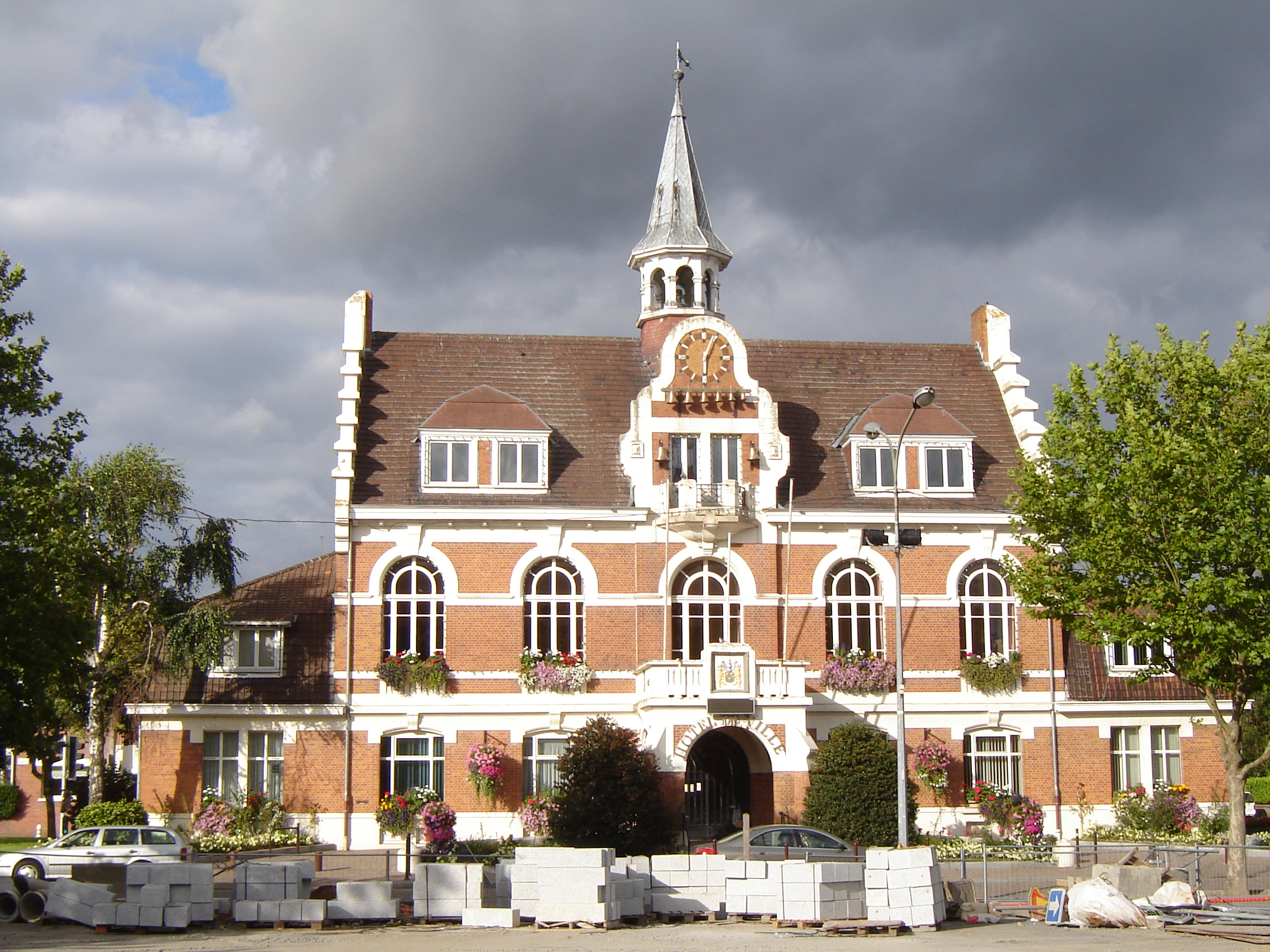 Town hall of Quesnoy-sur-Deûle. Quesnoy-sur-Deûle, Nord, Nord-Pas-de-Calais, France